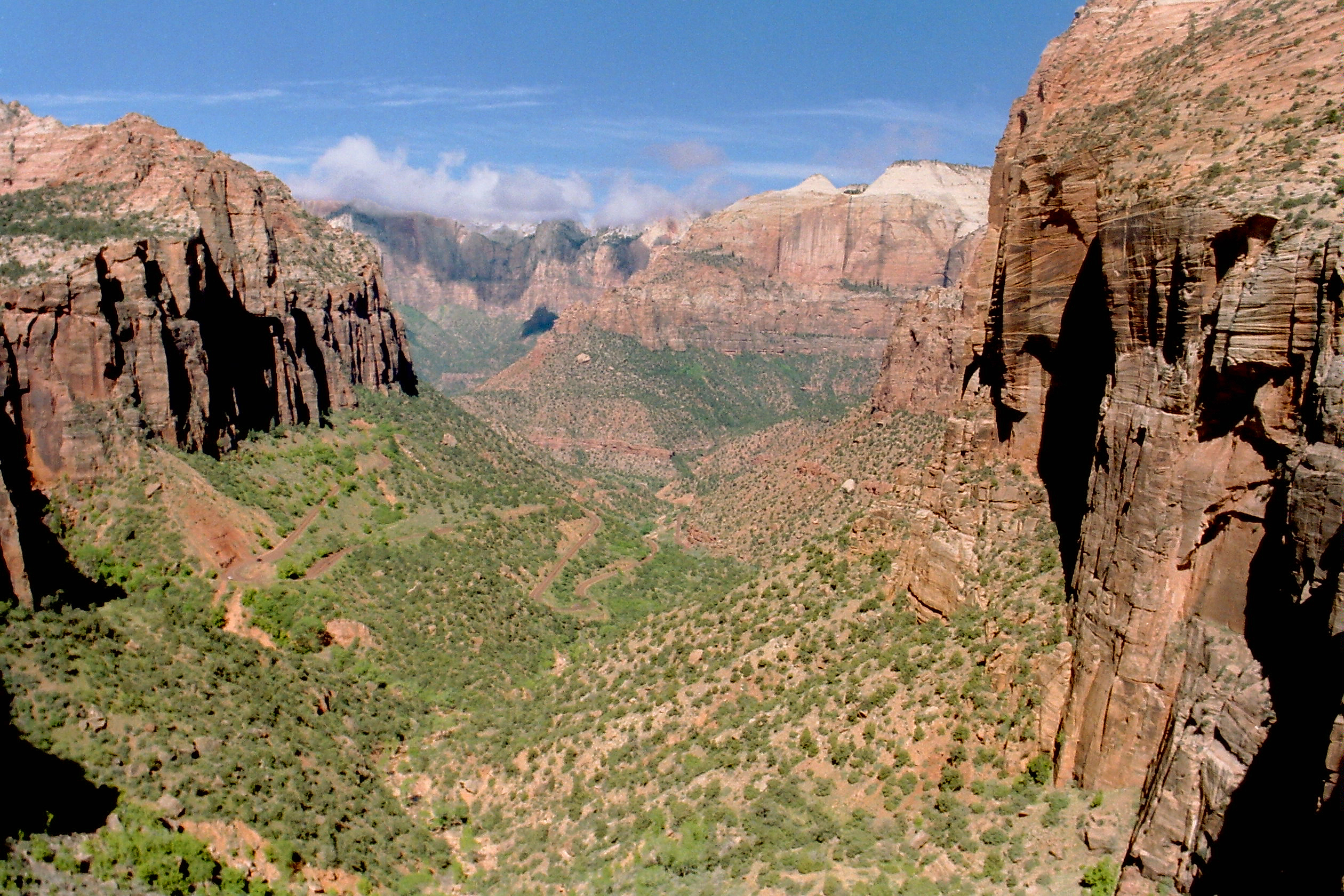 Zion National Park is located in southwestern Utah, United States. View from Canyon Overlook.